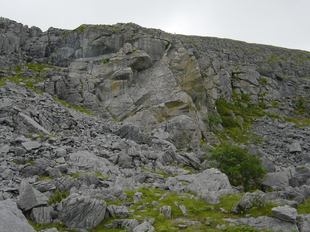 Aill na Crónáin, Skull Buttress. A nice limestone climbing crag near Ballyvaughan in Clare with +50 routes of 10-25m mostly in grades V.Diff. to Hard Severe, but with one E1 in the guide. Reached by a 400m level walk from the Upper Ailwee Cave carpark and a quick descent to the foot of the crag. Not only is the climbing rather fine, but the situation and view too: 1192514.